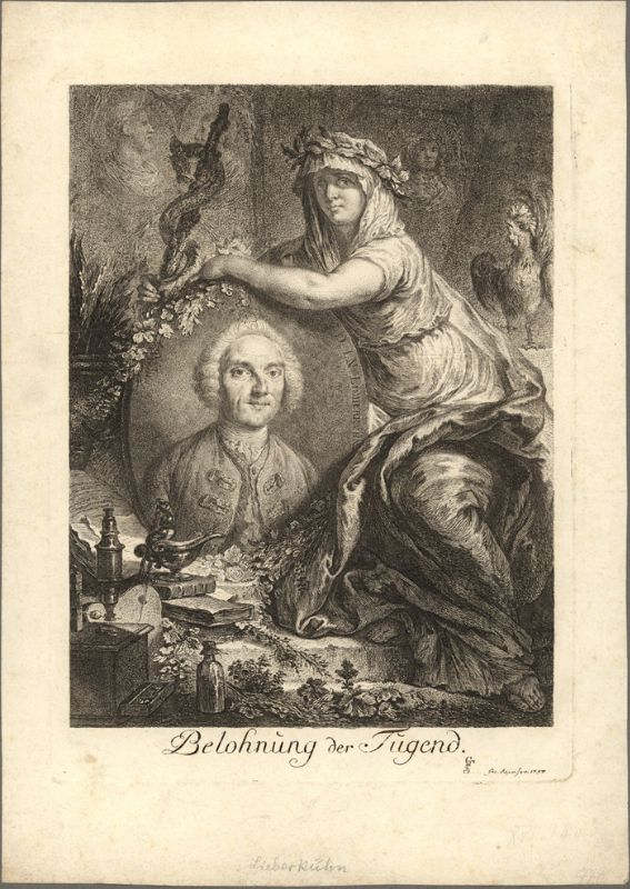 Personification of virtue, here with Rod of Asclepius, encompasses the medalion with the image of Lieberkühn. In the foreground medical equipment and books (left) and illustrations of great doctors (Hippocrates, Galen).